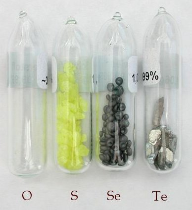 Assortment of chalcogen group elements.